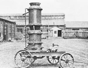 The original shotcrete machine used in 1907 to recoat the facade of the Field Museum